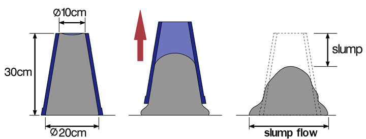 How to test workability of concrete